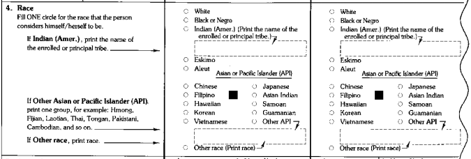 1990 questions on race for census